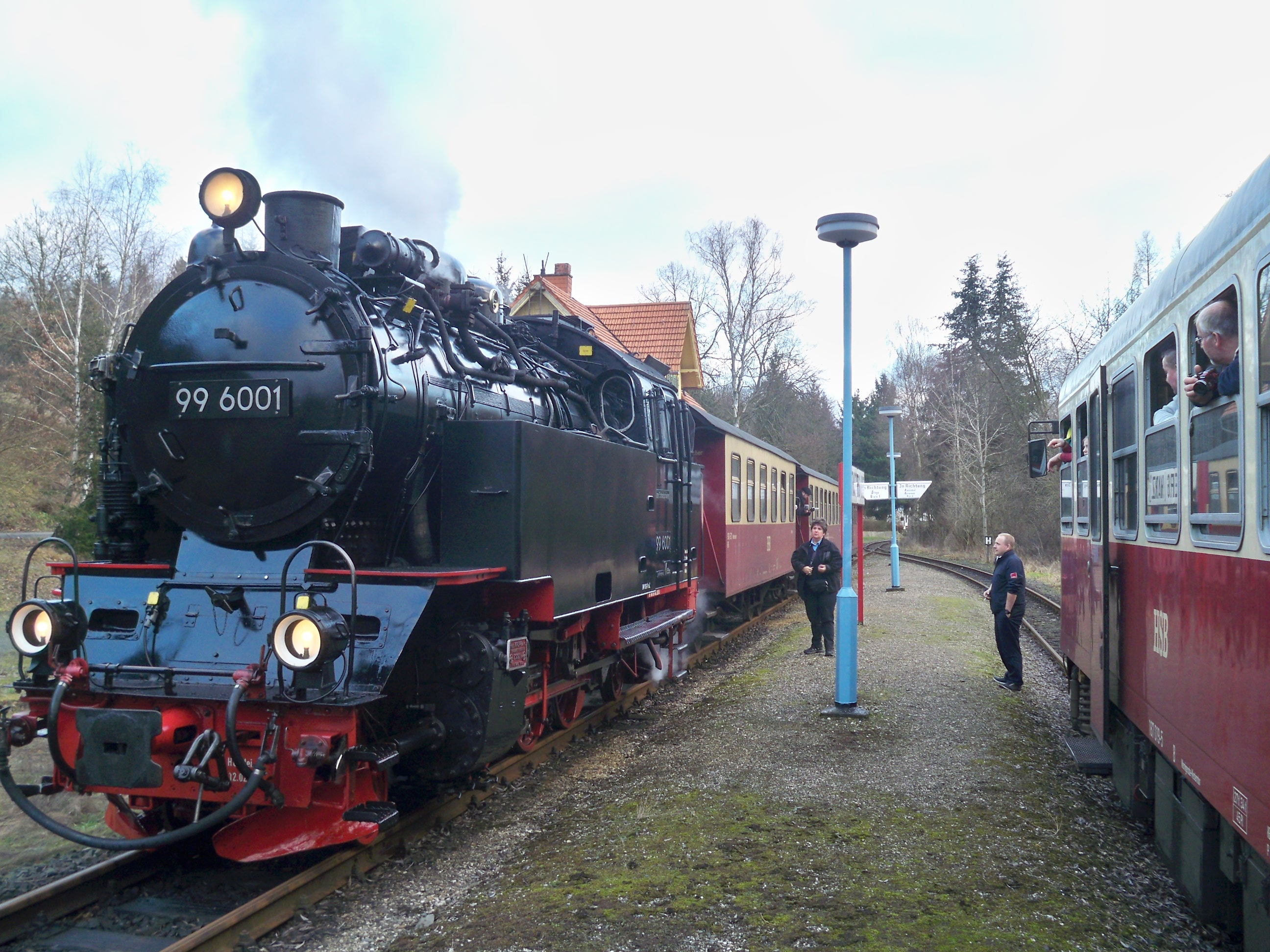 Straßberg, Harz mountains, steam engine 99 6001 and railcar 187 019